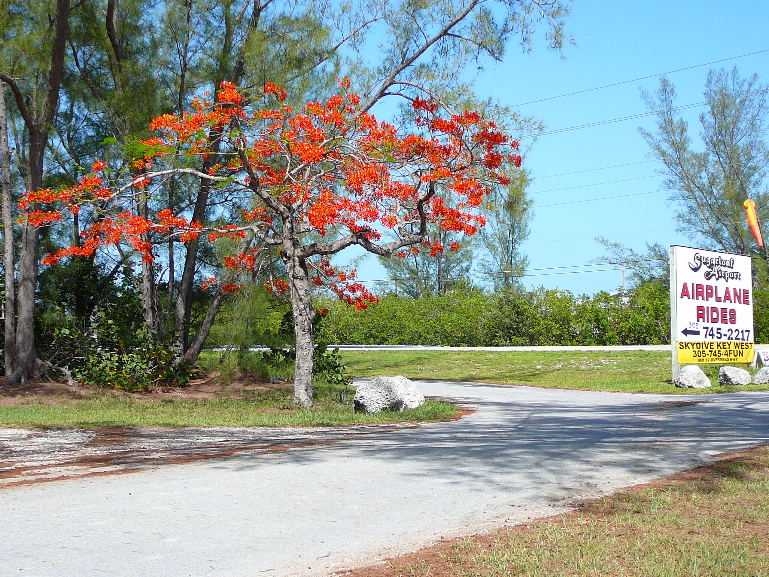 Digital photo taken by Marc Averette. Lower Sugarloaf Key in the Florida Keys